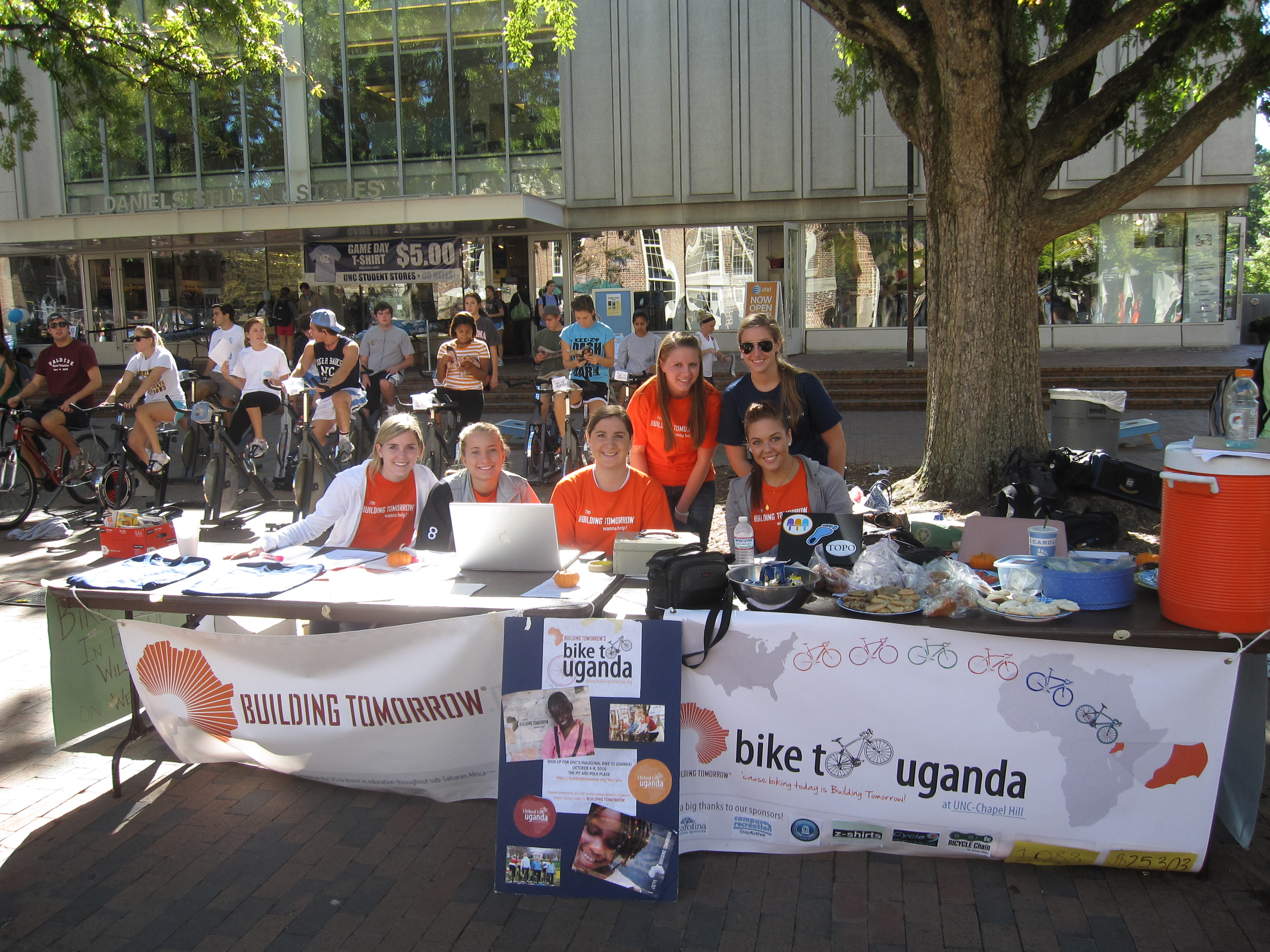 The Building Tomorrow chapter at the University of North Carolina-Chapel hosted their 1st Bike to Uganda in October 2010, raising over $30,000.